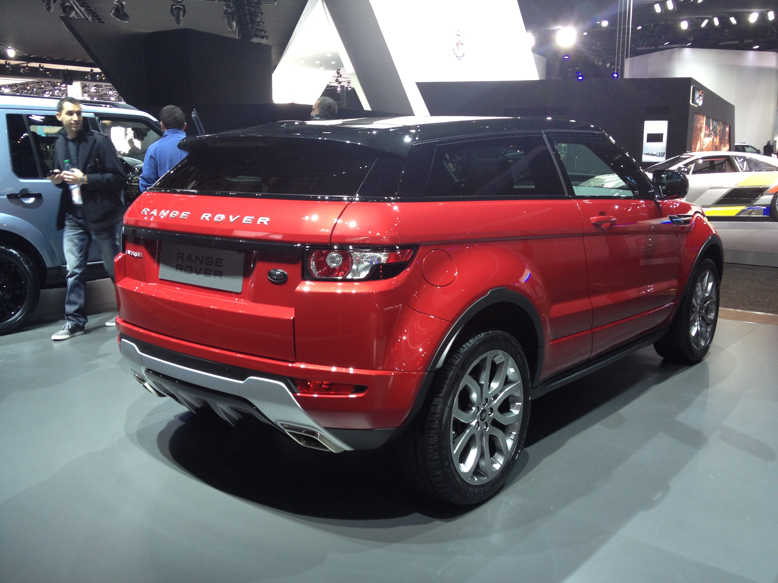 2013 North American International Auto Show Detroit, Michigan